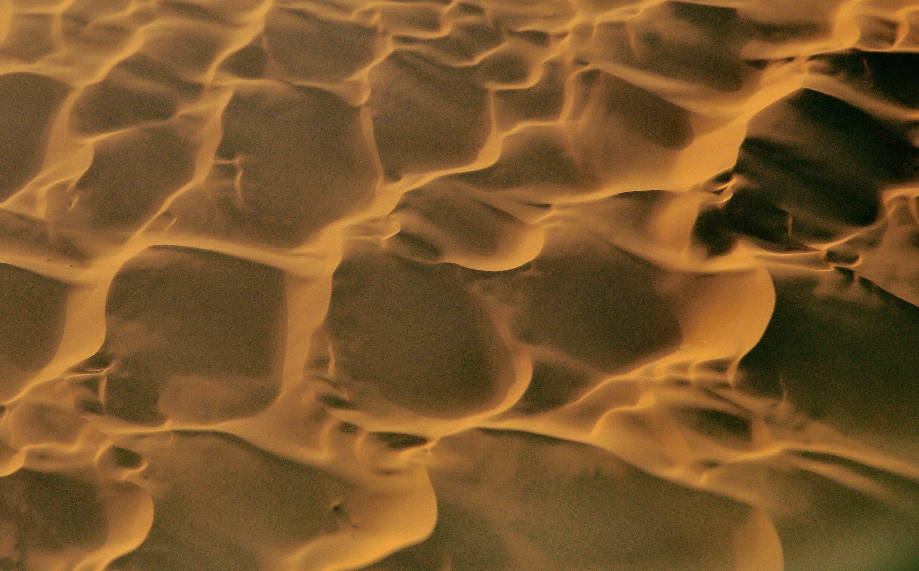 An aerial view of the dunes North of Timimoun (Adrar, Algeria)